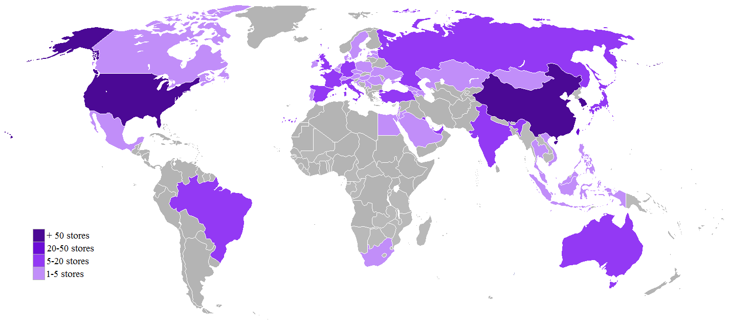 Burberry stores by the countries.